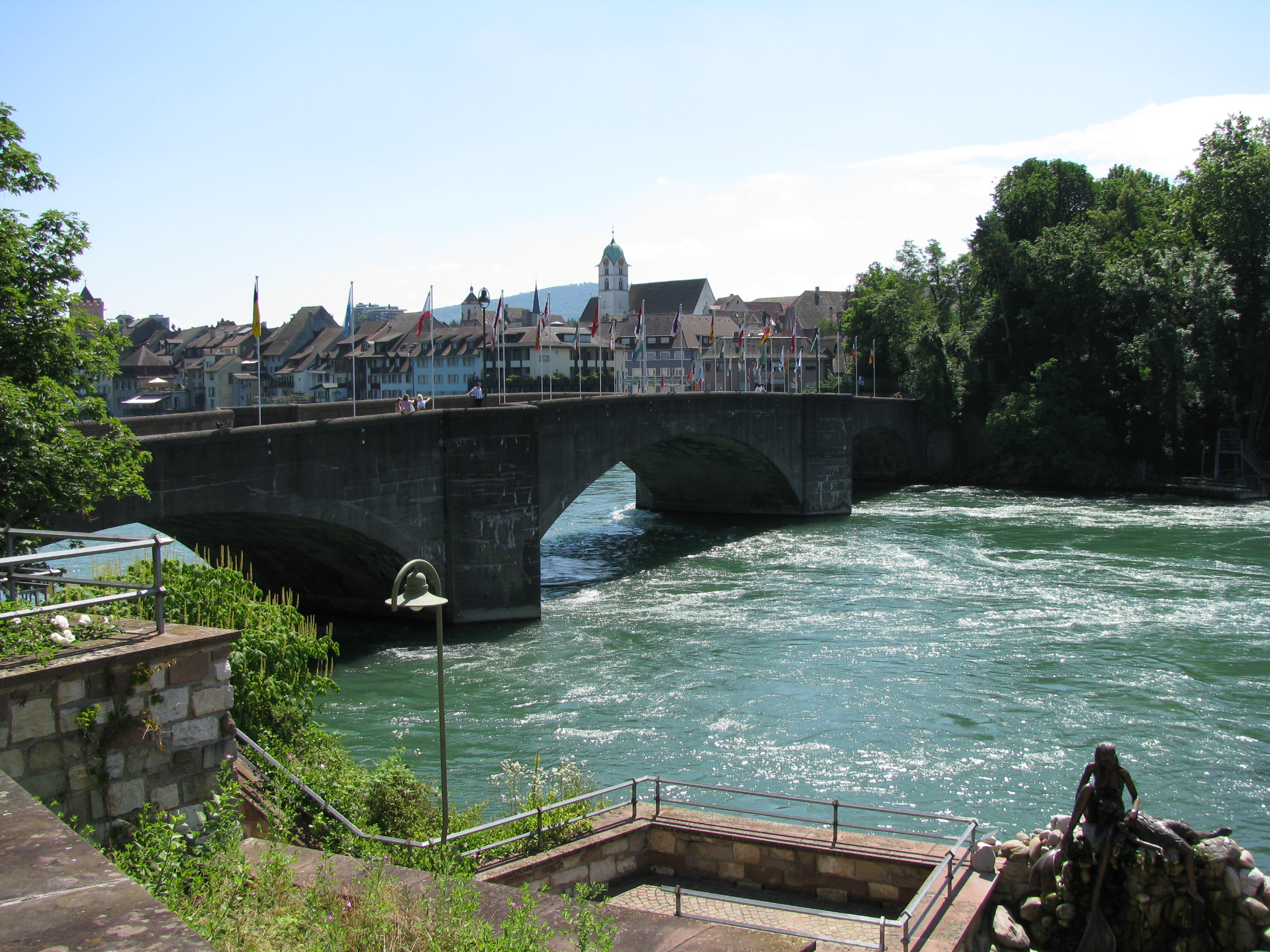 Old Rhine bridge and old town of Rheinfelden, Switzerland.